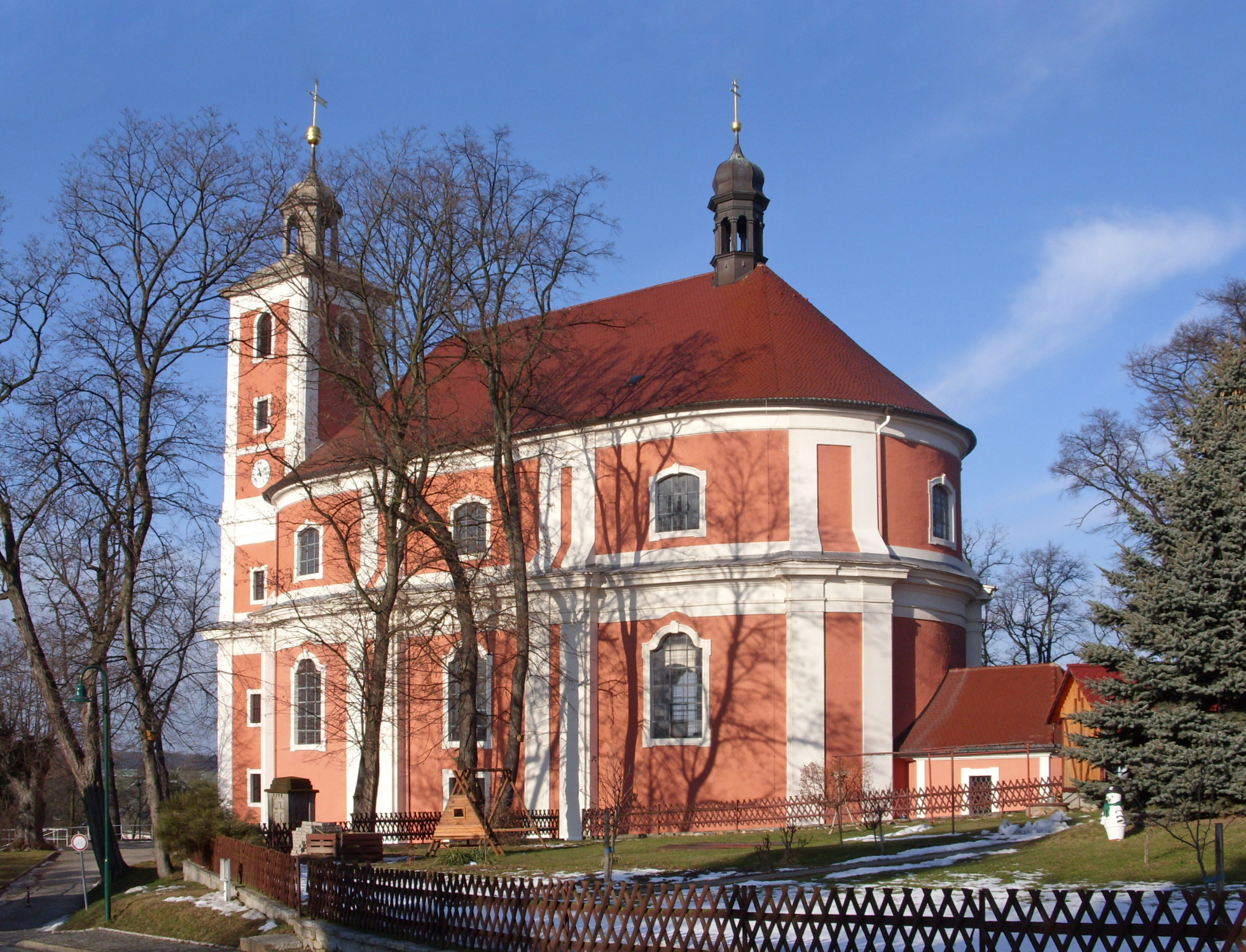 Church in Nebelschütz/Njebjelčicy, Bautzen district. Hornjoserbsce: Cyrkej w Njebjelčicach, wokrjes Budyšin.